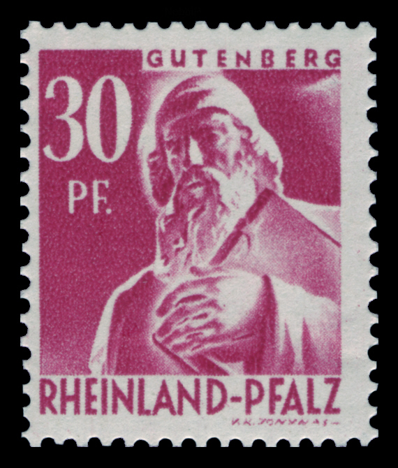 French occupied zone, Rhineland-Palatinate, persons and views of Rhineland-Palatinate (I) Ausgabepreis: 30 Pfennig First Day of Issue / Erstausgabetag: Februar 1948 Michel-Katalog-Nr: 9 (Französische Besetzungszone, Rheinland-Pfalz)